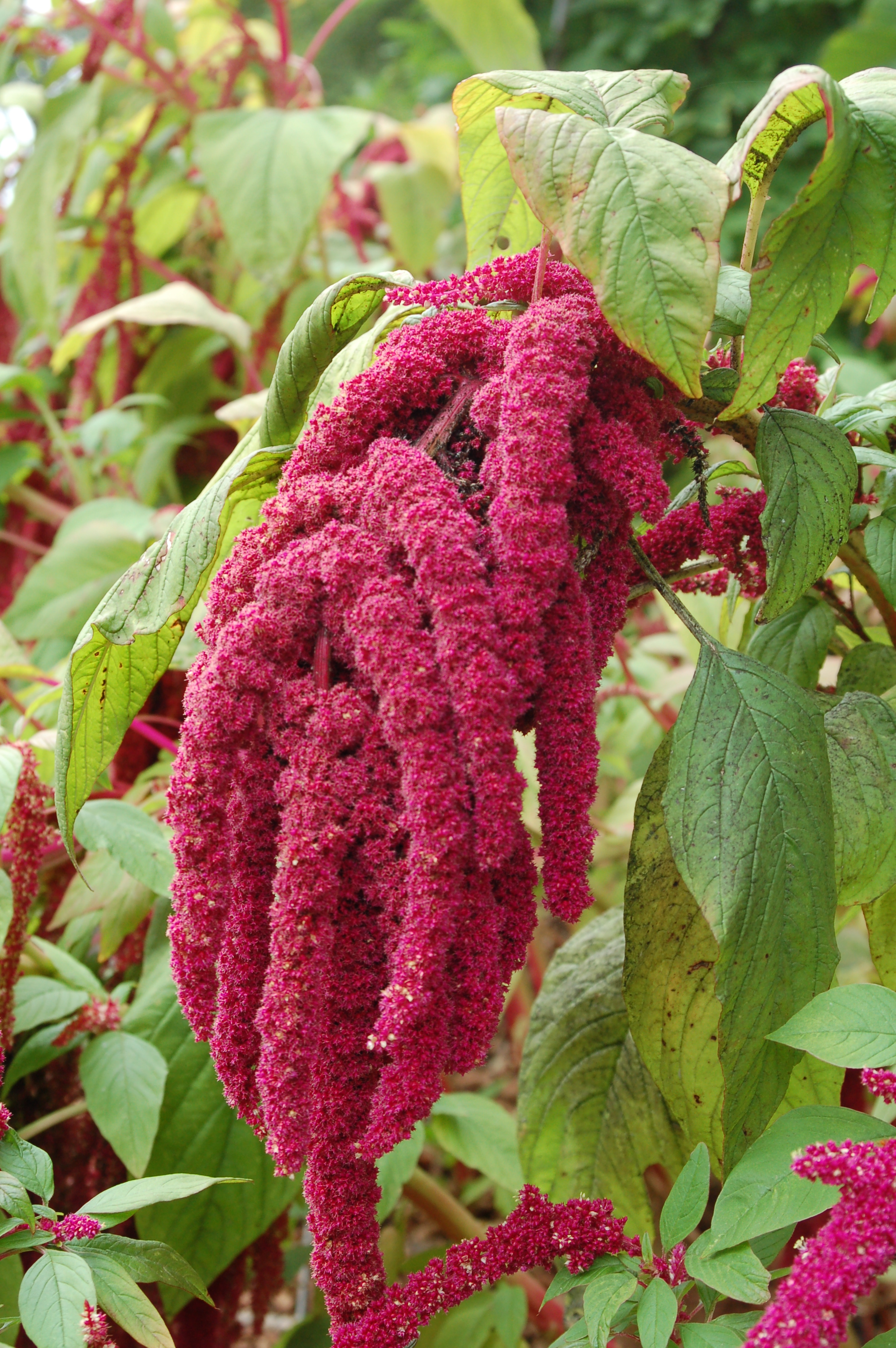 Amaranthus caudatus - Botanical Garden Bremen